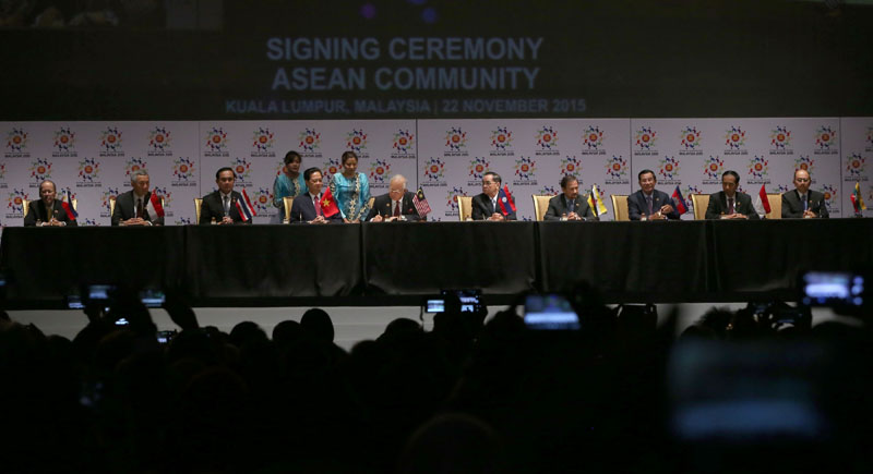 ASEAN leaders sign the 2015 Kuala Lumpur Declaration on the establishment of the ASEAN Community and the Kuala Lumpur Declaration on ASEAN 2025: Forging Ahead Together during the 27th ASEAN Summit in Kuala Lumpur on 22 November 2015.